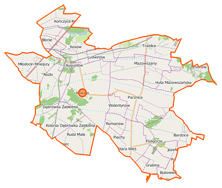 Map of Gmina Kowala, Poland This map of Kowala (gmina) was created from OpenStreetMap project data, collected by the community. This map may be incomplete, and may contain errors. Don't rely solely on it for navigation. Border coordinates51.378020.9949←↕→21.197851.2701